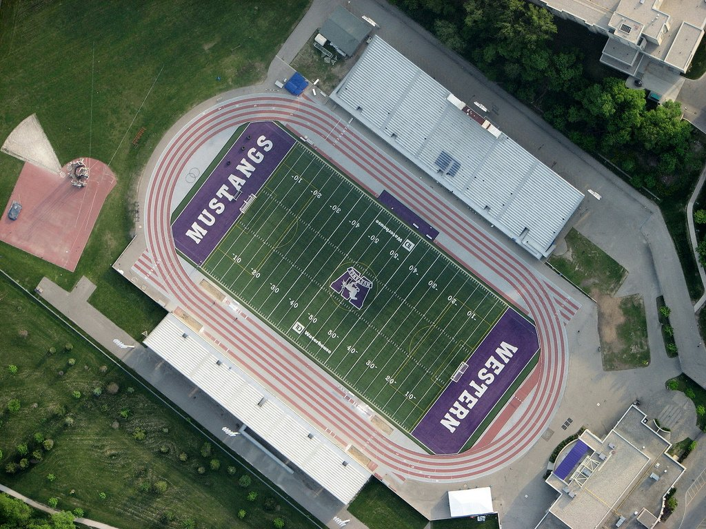 An aerial photo of TD Stadium in London, Canada.